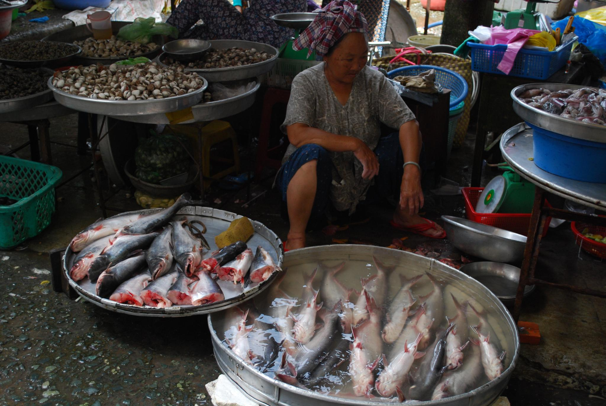 Basa fishes are sold in Vĩnh Long market, Việt Nam